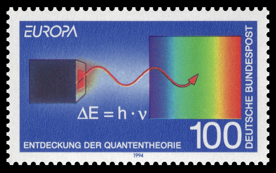 Europa postage stamps, discoveries and inventions